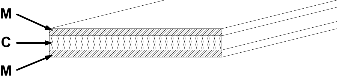 Diagram of physical configuration of symmetrical sandwich for explosives engineering calculations